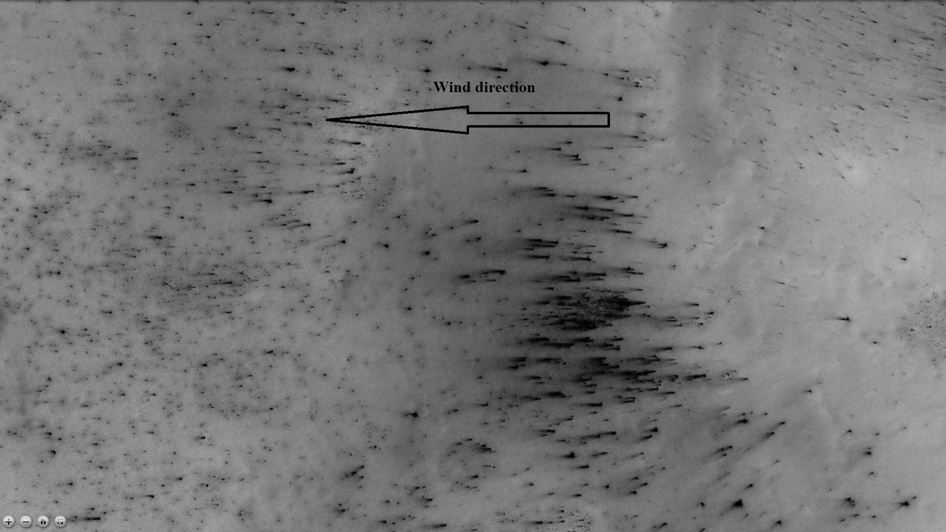 Enlargement of western edge of main crater, as seen by CTX Dark streaks are from winds blowing dust that is being blown out from pressurized carbon dioxide during the spring season. Arrow indicates direction of wind.